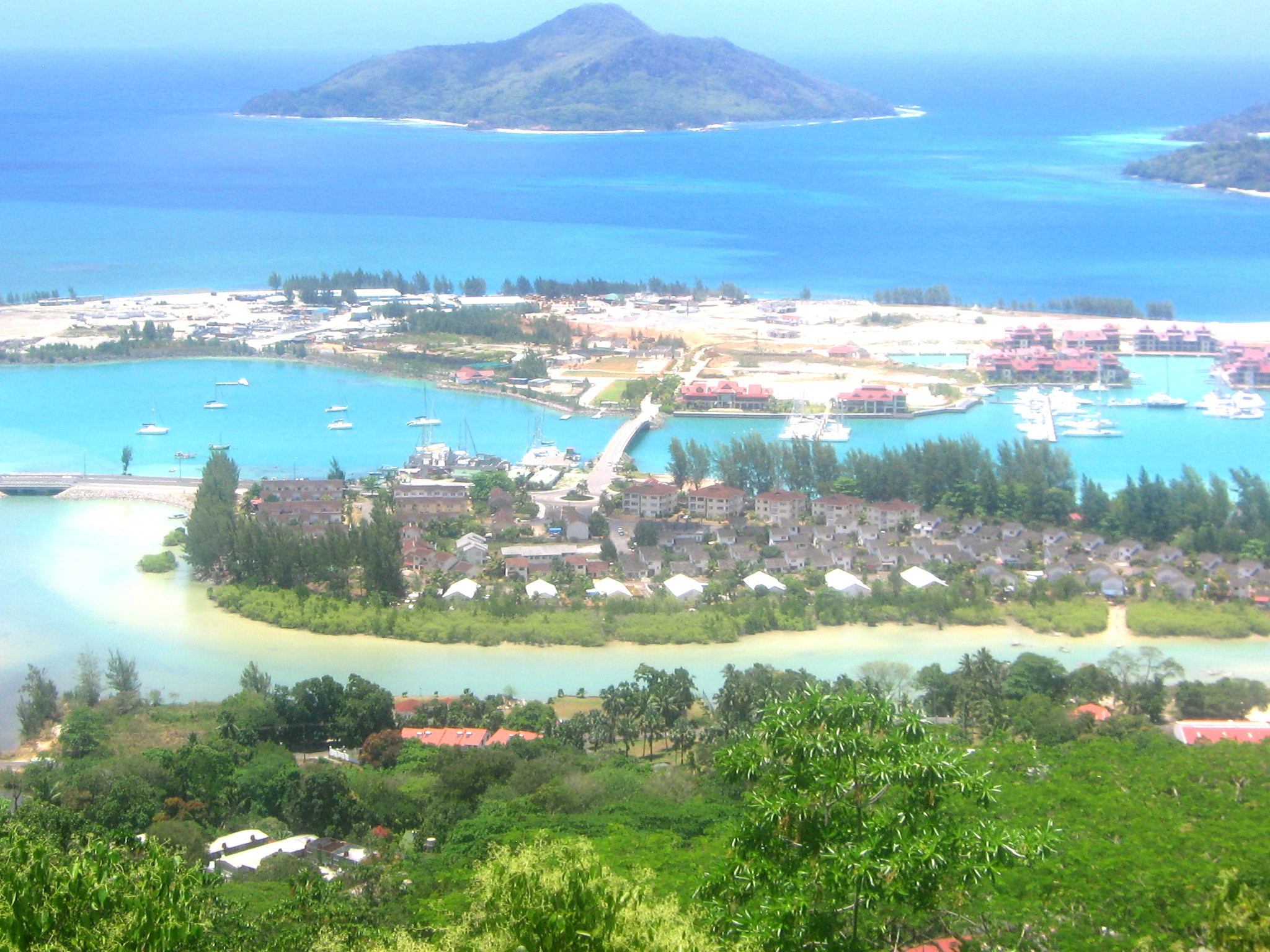 Land reclamation project completed, in due time housing issues will be solved. A view of Eden Island.